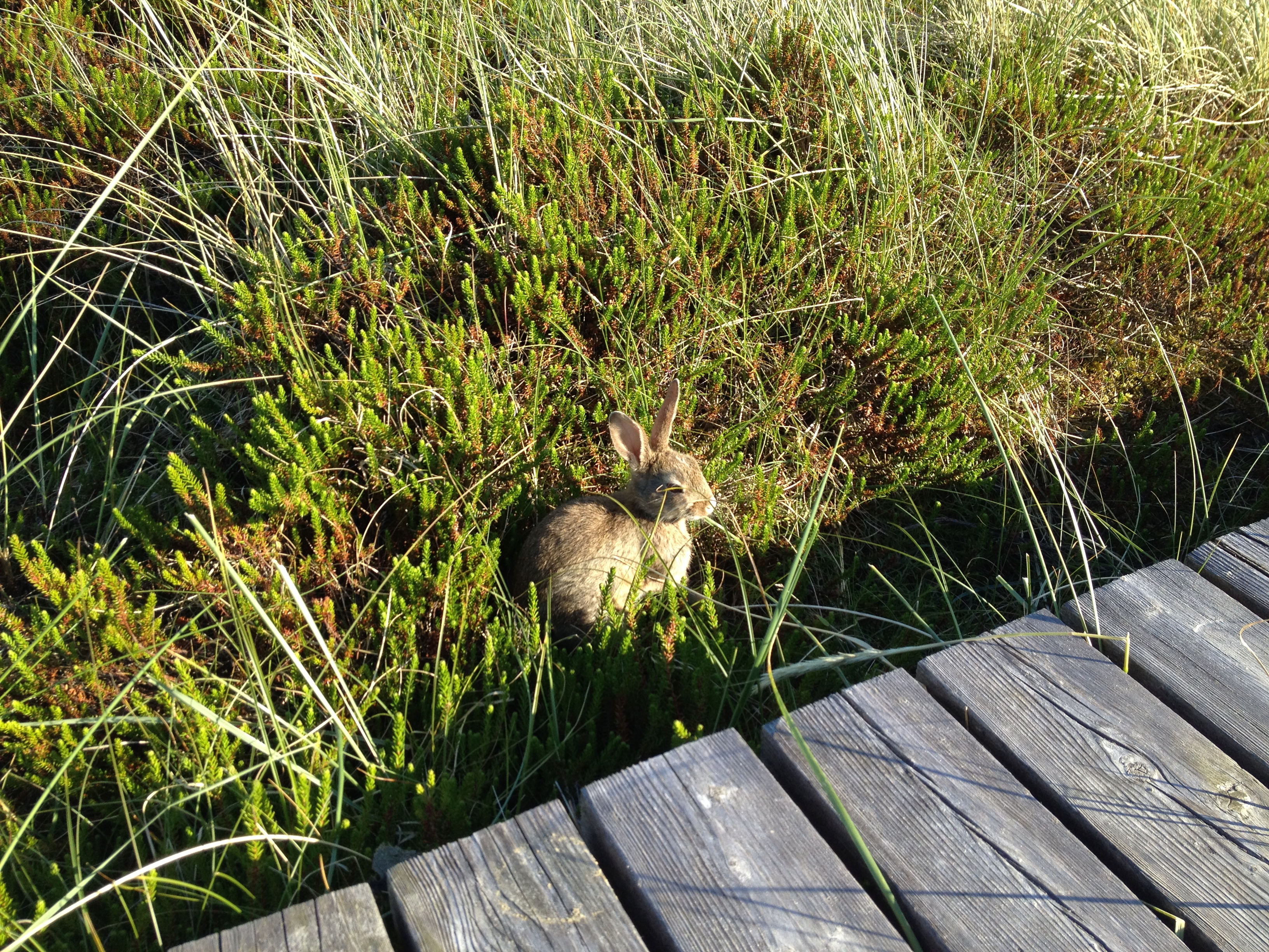 Bunny sitting in dunes on Amrum